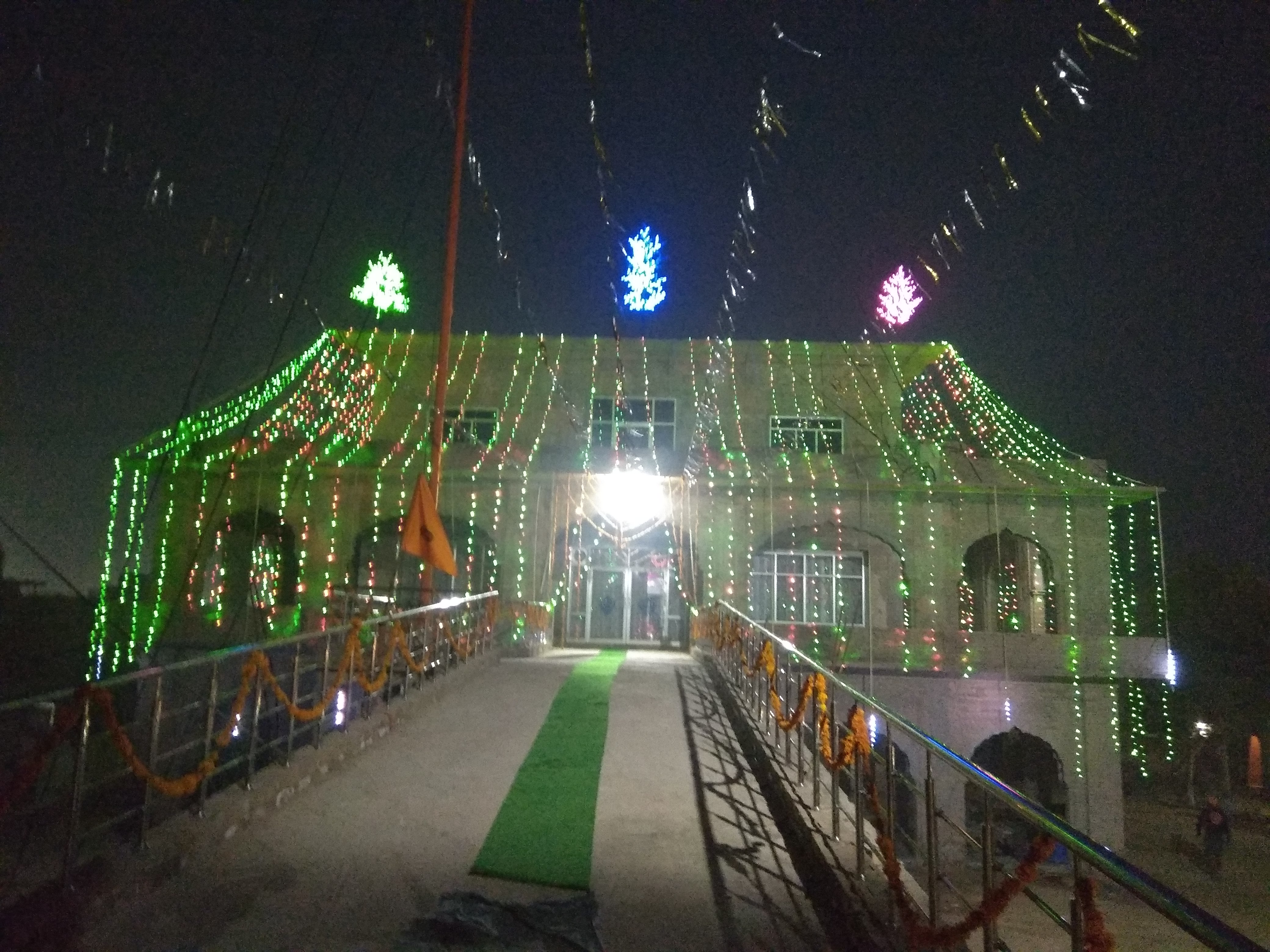 This photo is about Rawla mandi gurudwara celebration.Taken by me .I am user shemaroo aka Sivender singhShemaroo